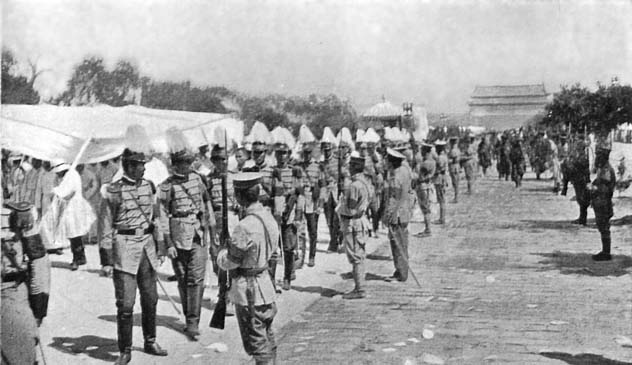 The Funeral of Yuan Shih-kai: The Procession passing down the great Palace Approach, with the famous Ch'ien Men (Gate) in the distance.